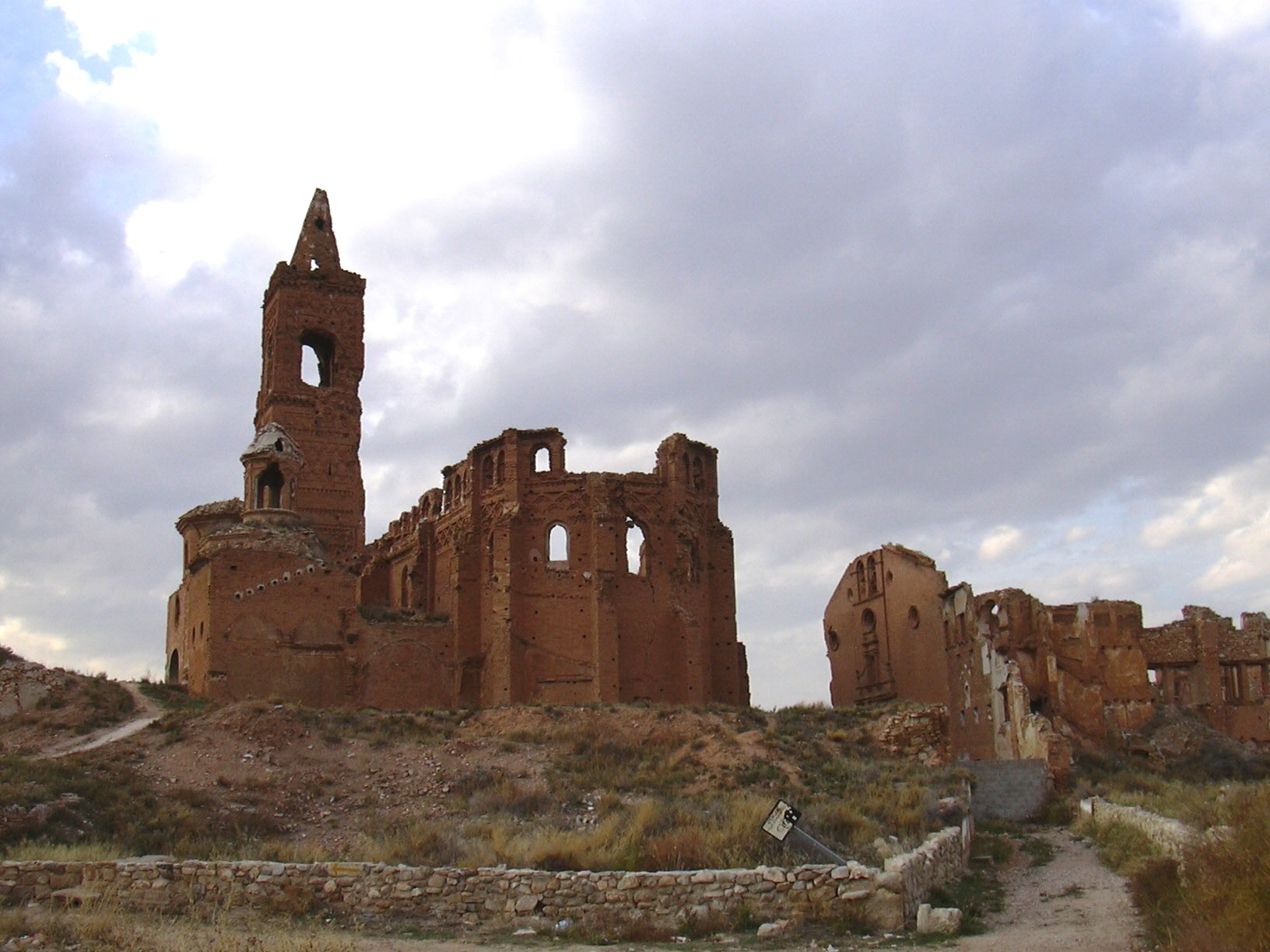 Belchite - Town in Aragon, Spain - Destroyed during the Spanish Civil War (1937), was not rebuild and stayed as monument